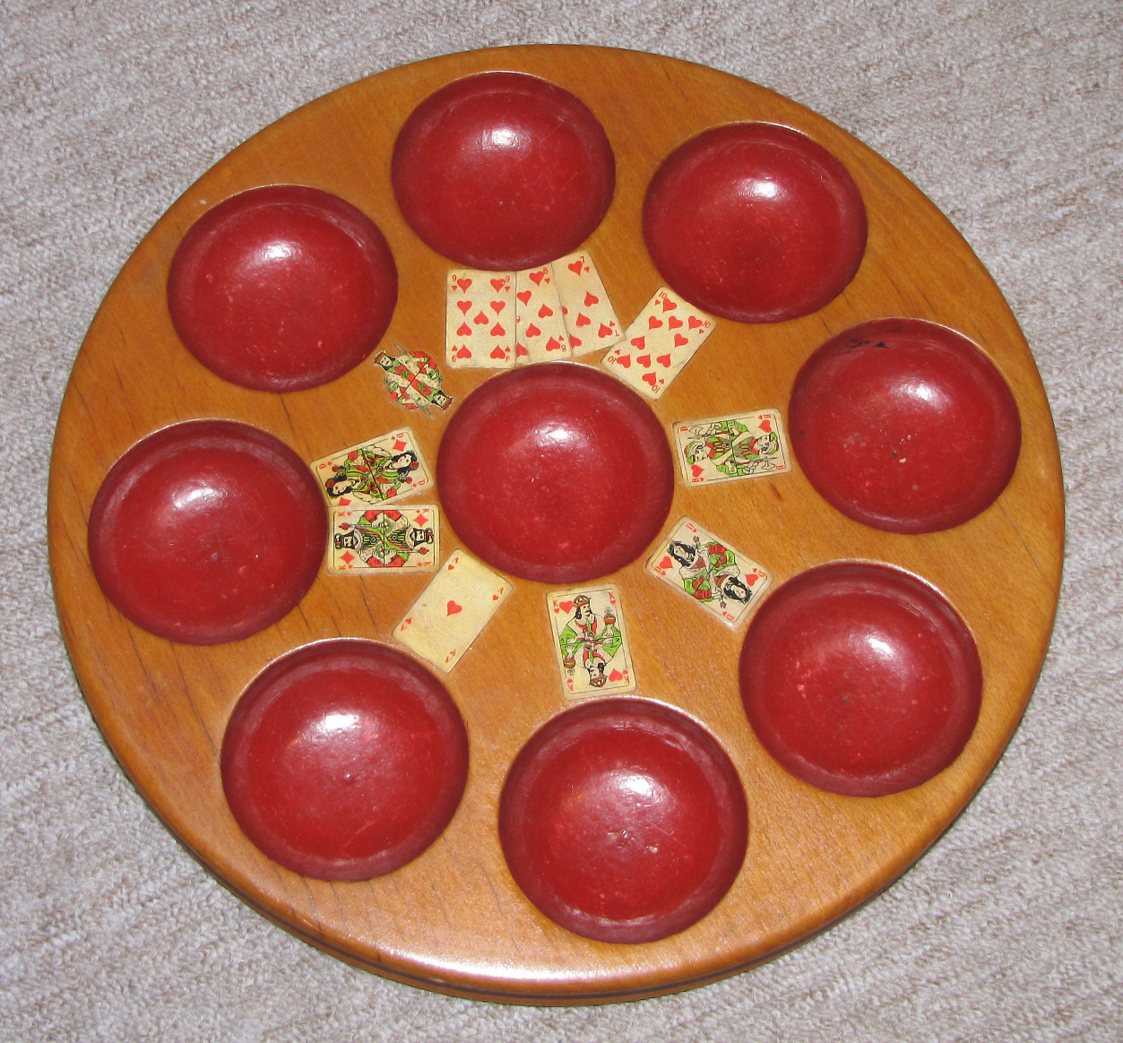 a big Pochbrett.